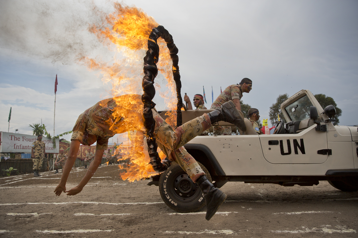 A member of the Egyptian special forces jumps through a hoop during a medal parade in Bukavu.